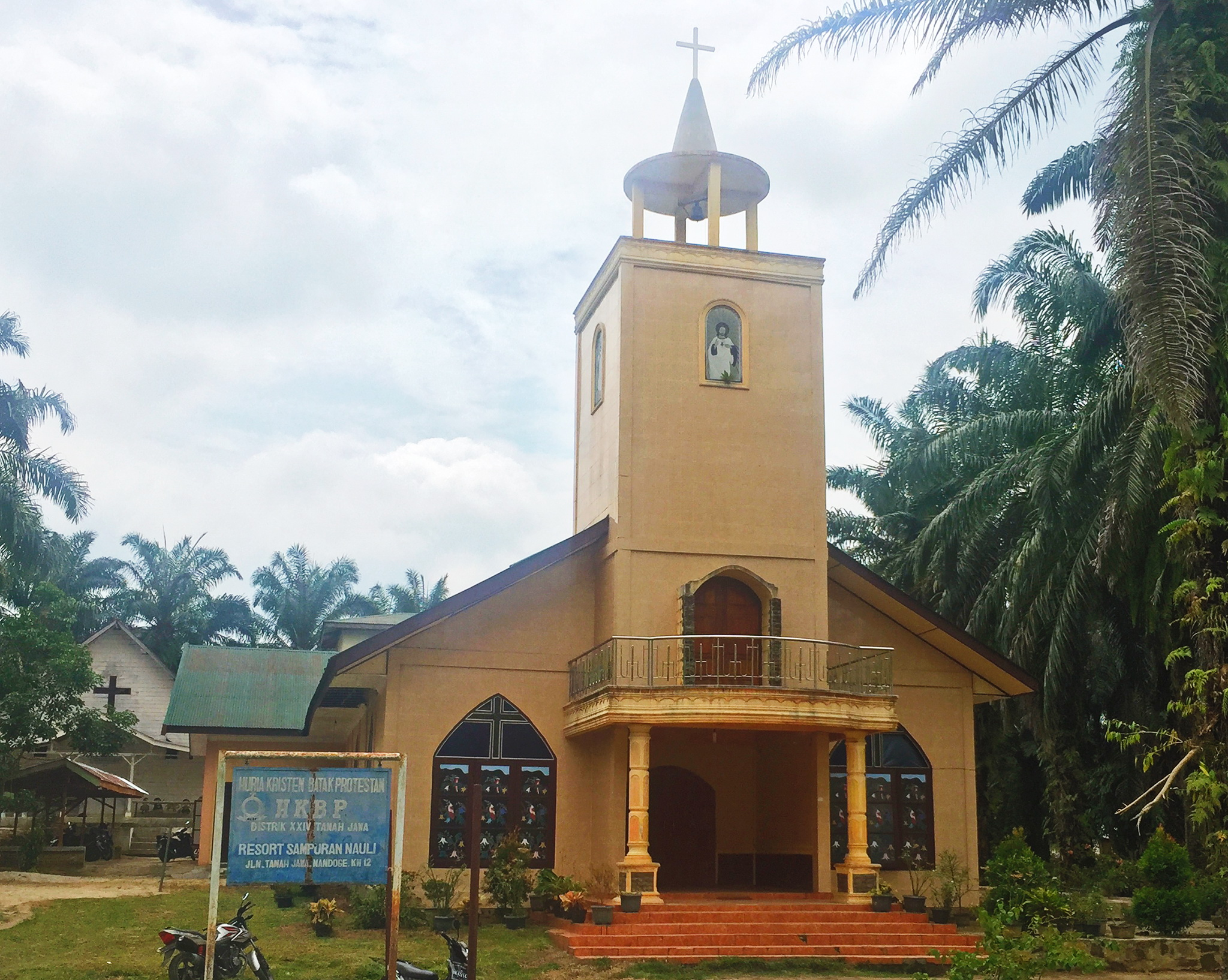 HKBP Sampuran Nauli, Church in Buntu Bayu, Hatonduhan, Simalungun